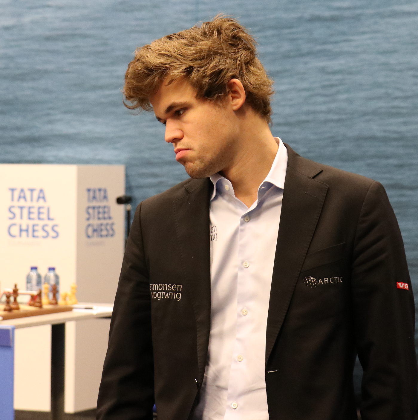 Magnus Carlsen in the last round of Tata Steel chess 2017